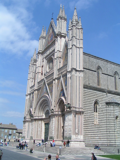 Facade of Orvieto cathedral